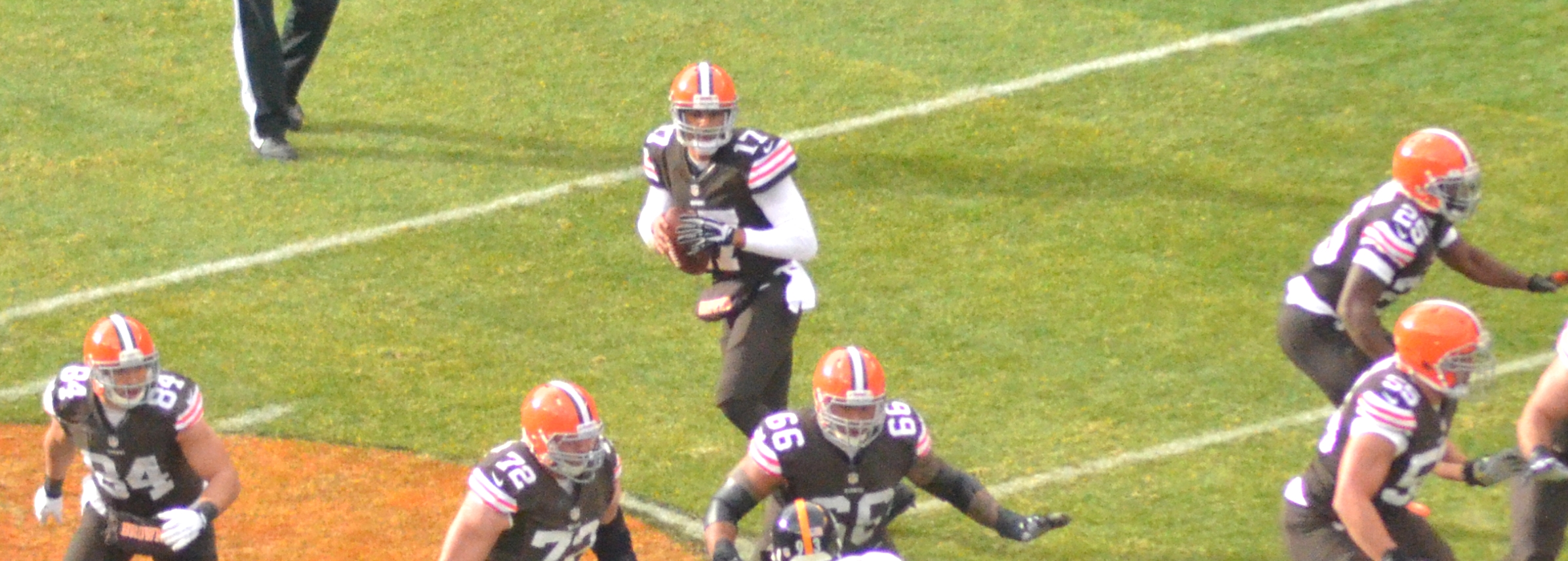 Cleveland Browns vs. Pittsburgh Steelers